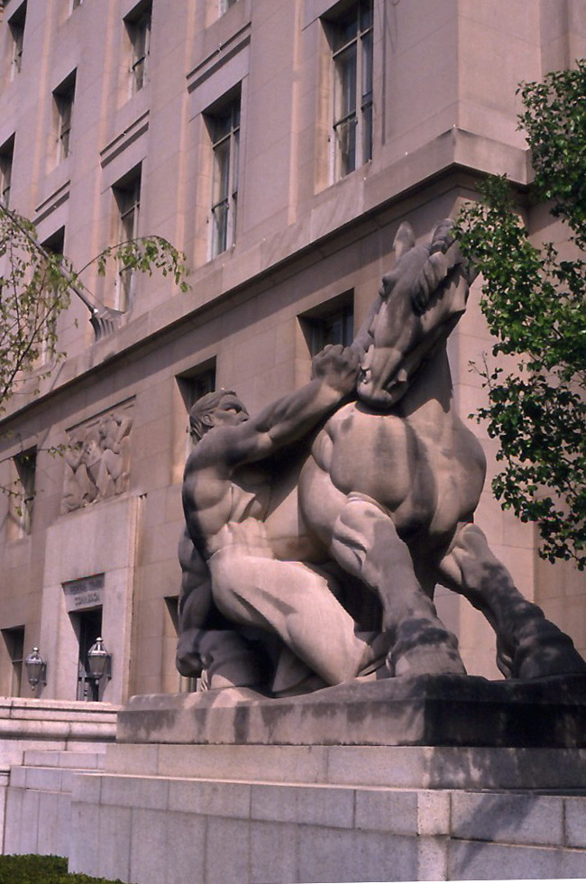 sculpture "Man Controlling Trade" 2 by Michael Lantz a WPA project located at the Apex Building , Washingt DC, USA